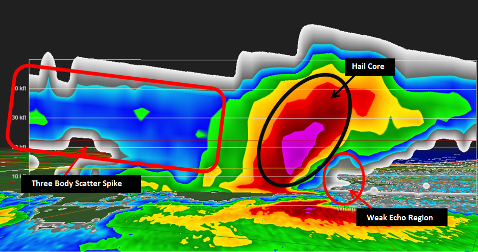 A 3D-Cross Section of an Anti-Cyclonic Thunderstorm of which can be seen a 3 Body Scatter Spike on the left, a Bonded Weak Echo to the lower right and the Hail core (high reflectivity zone)